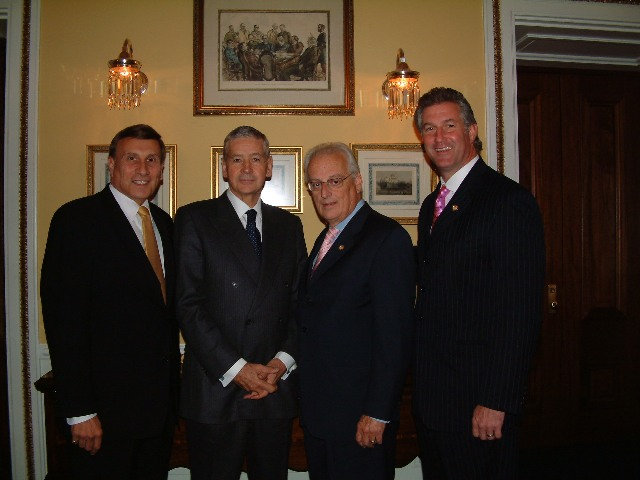 Congressional Italian-American Delegation to Meet with Italian Ambassador Giovanni Castellaneta. From left to right are Rep. John Mica (FL-17), Ambassador Castellaneta, Rep. Bill Pascrell (NJ-8), and Rep. RickRenzi.